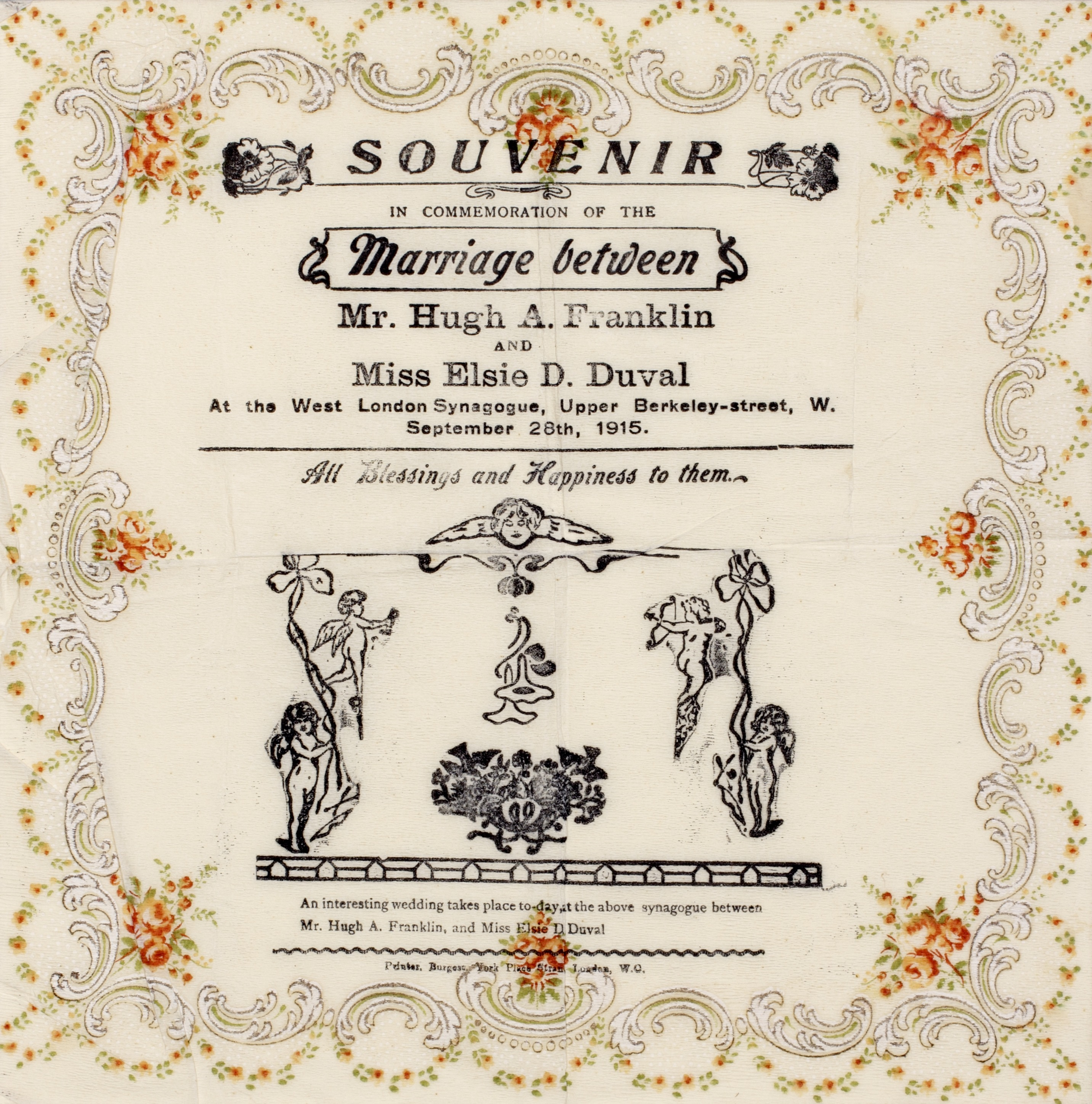 7HFD/D/01Elsie Duval and Hugh Franklin were married at the West London Synagogue on 28 Sep 1915 Napkin, printed, paper, cream with green, orange and yellow flower border, black printed inscription in centre, cerubs below, inscription: 'Souvenir in commemoration of the marriage between Mr Hugh A Franklin and Miss Elsie D Duval at the West London Synagogue, Upper Berkley St, W, 28 Sep 1915. All blessings and happiness to them. An interesting wedding takes place today at the above synagogue between Mr Hugh A Franklin and Miss Elsie D Duval'; mounted